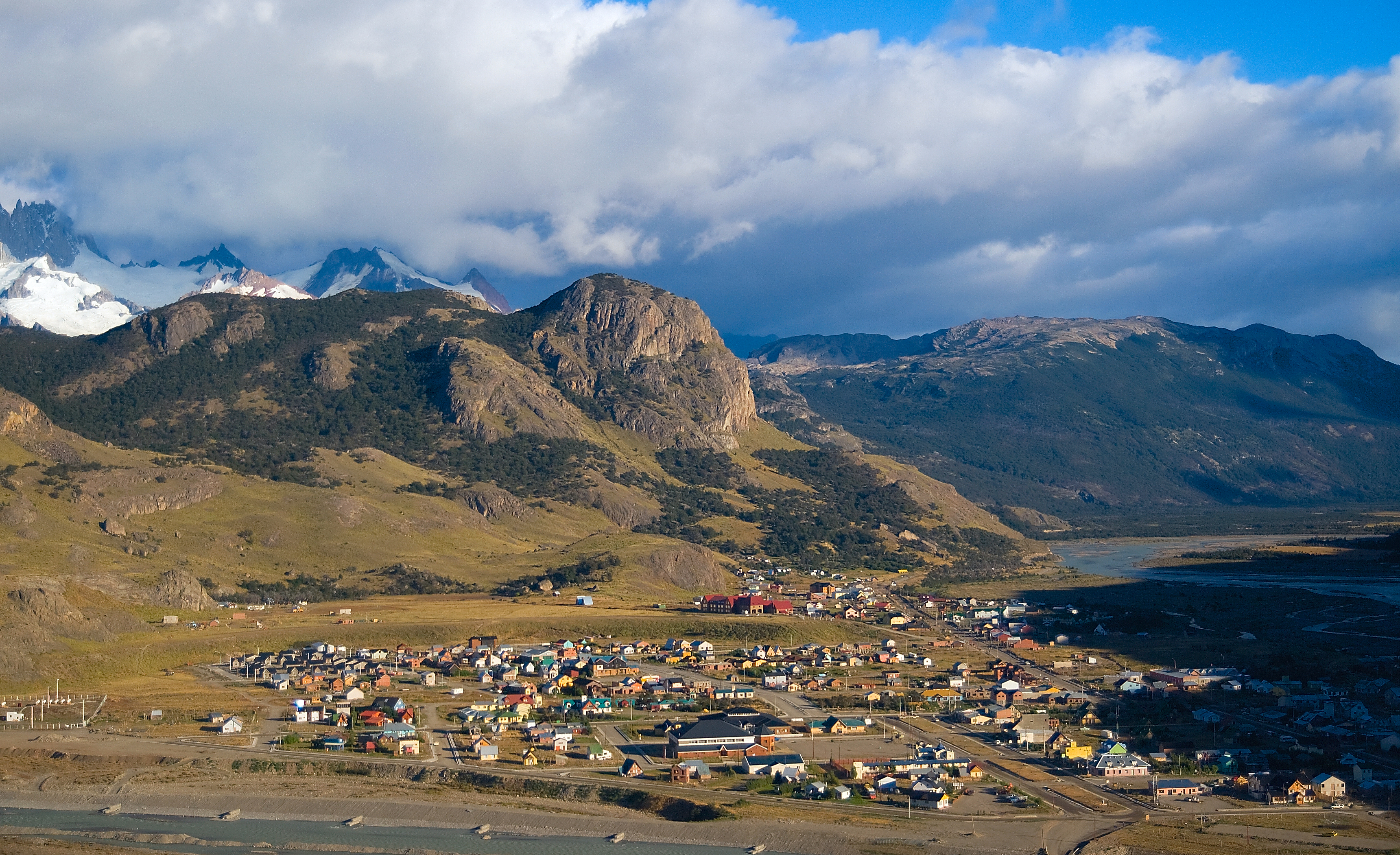 This few is from one of the mountains above El Chaltén